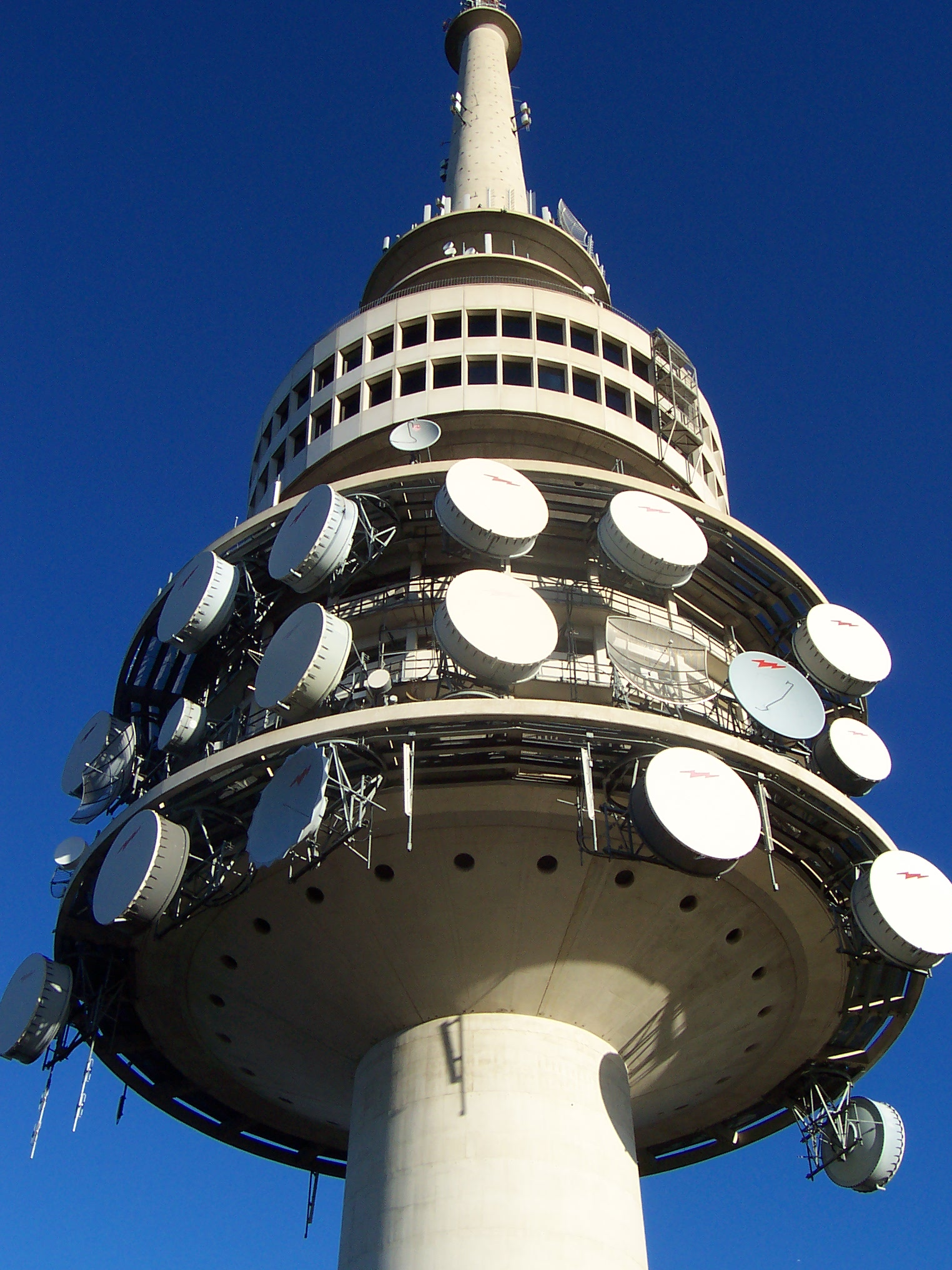 Telstra Tower